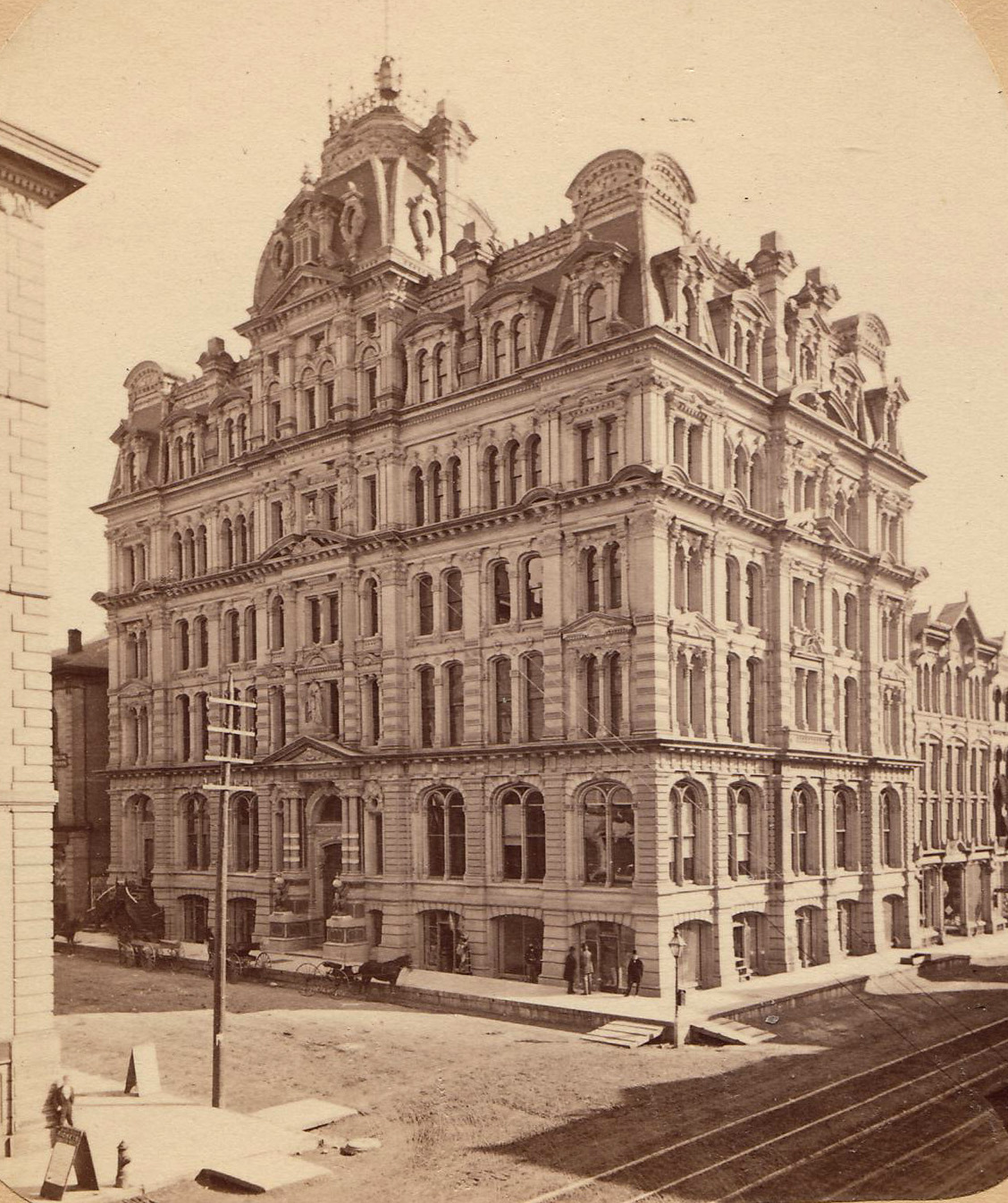 The Mitchell Building (1876) at 207 E. Michigan Street in downtown Milwaukee, Wisconsin, was built for the millionaire Scottish immigrant, entrepreneur, and politician Alexander Mitchell. Designed by E. Townsend Mix in the French Second Empire style and constructed of gray sandstone at a total cost of $400,000, this building stood at the hub of downtown Milwaukee and still functions today as a commercial center.